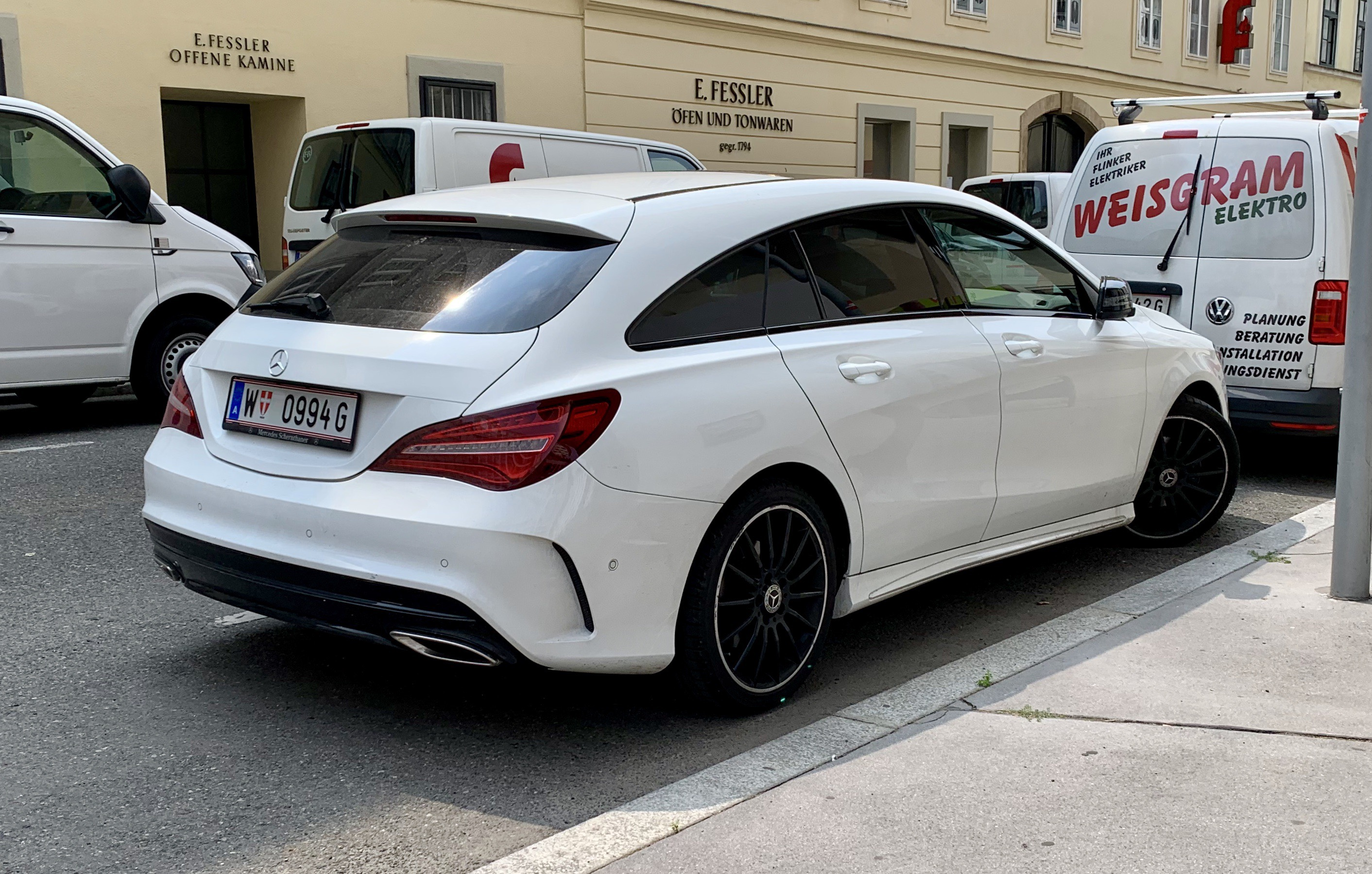 Mercedes-Benz CLA Shooting Brake in Vienna, Austria